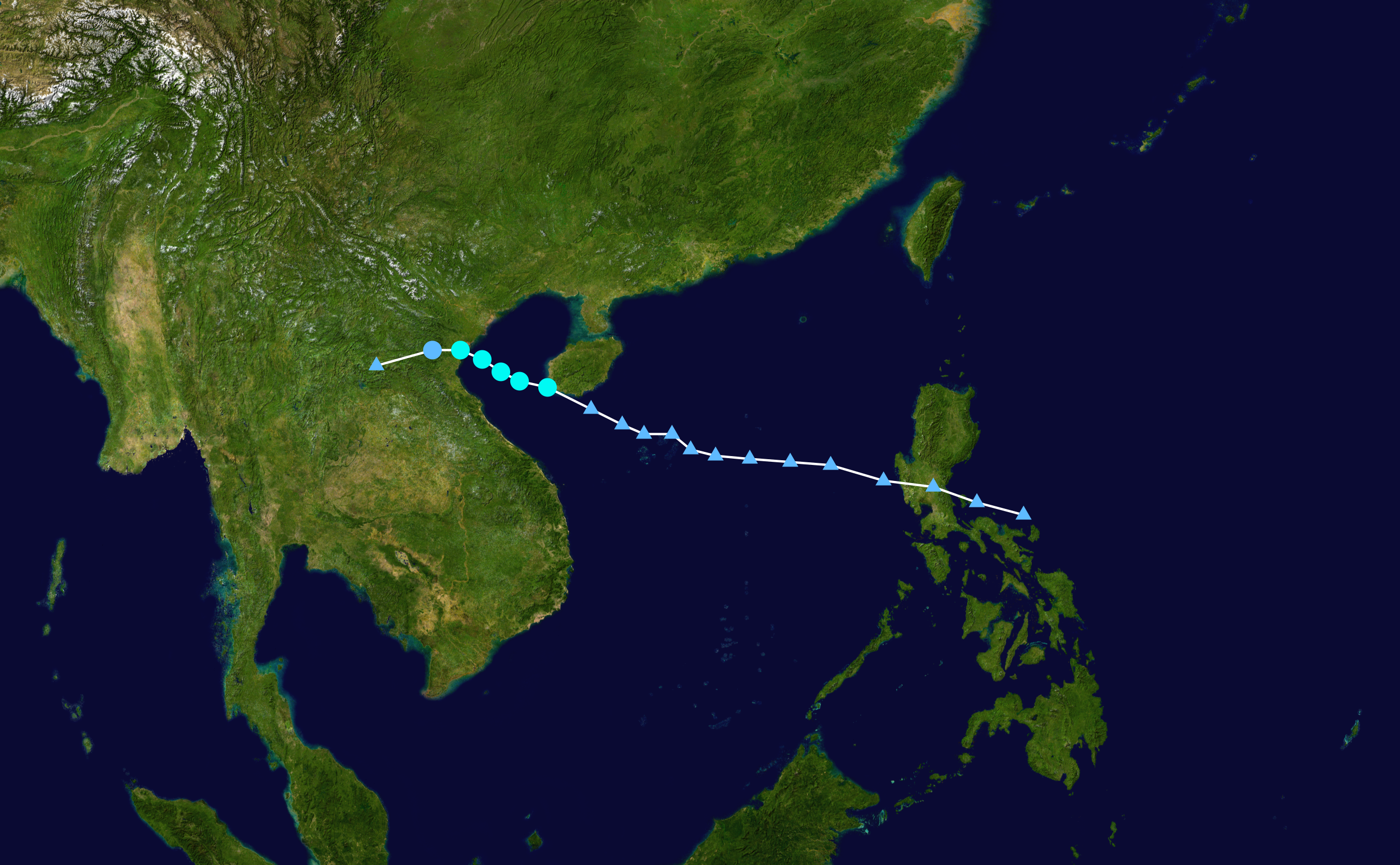 Track map of Tropical Storm Sinlaku of the 2020 Pacific typhoon season. The points show the location of the storm at 6-hour intervals. The colour represents the storm's maximum sustained wind speeds as classified in the Saffir–Simpson scale (see below), and the shape of the data points represent the nature of the storm, according to the legend below. Saffir–Simpson scale Tropical depression≤38 mph≤62 km/h Category 3111–129 mph178–208 km/h Tropical storm39–73 mph63–118 km/h Category 4130–156 mph209–251 km/h Category 174–95 mph119–153 km/h Category 5≥157 mph≥252 km/h Category 296–110 mph154–177 km/h Unknown Storm type Tropical cyclone Subtropical cyclone Extratropical cyclone / Remnant low / Tropical disturbance / Monsoon depression